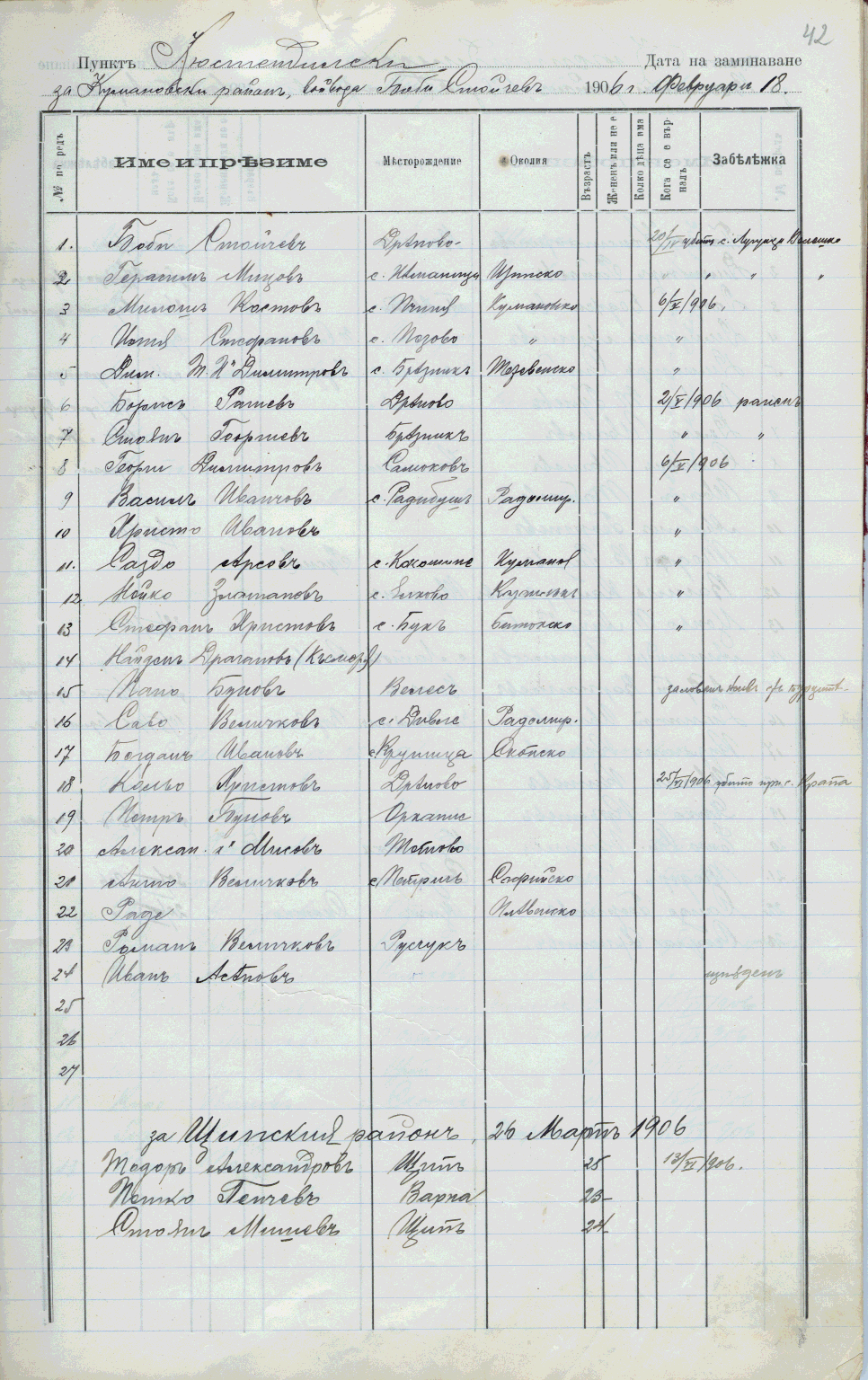 Diary of Kyustendil base of IMARO, list of Bobi Stoychev's cheta which left to Macedonia on 16 february 1906